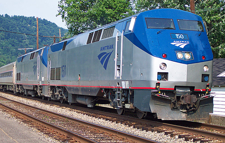 Amtrak #150 as it arrived at South Shore, Kentucky this morning: due at 07:19, arrived at 10:08. Runs 3 times a week CHI-NYC. The Amtrak web site and phone data was accurate so I adjusted my trip and had only a short wait. It was a real thrill to see this Amtrak version for the first time. Also, it's my first ever photo of Amtrak.